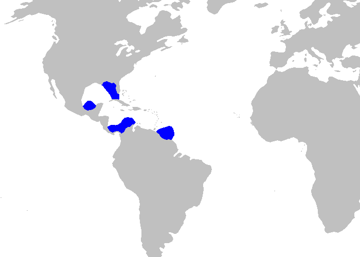 Distribution map for Apristurus parvipinnis